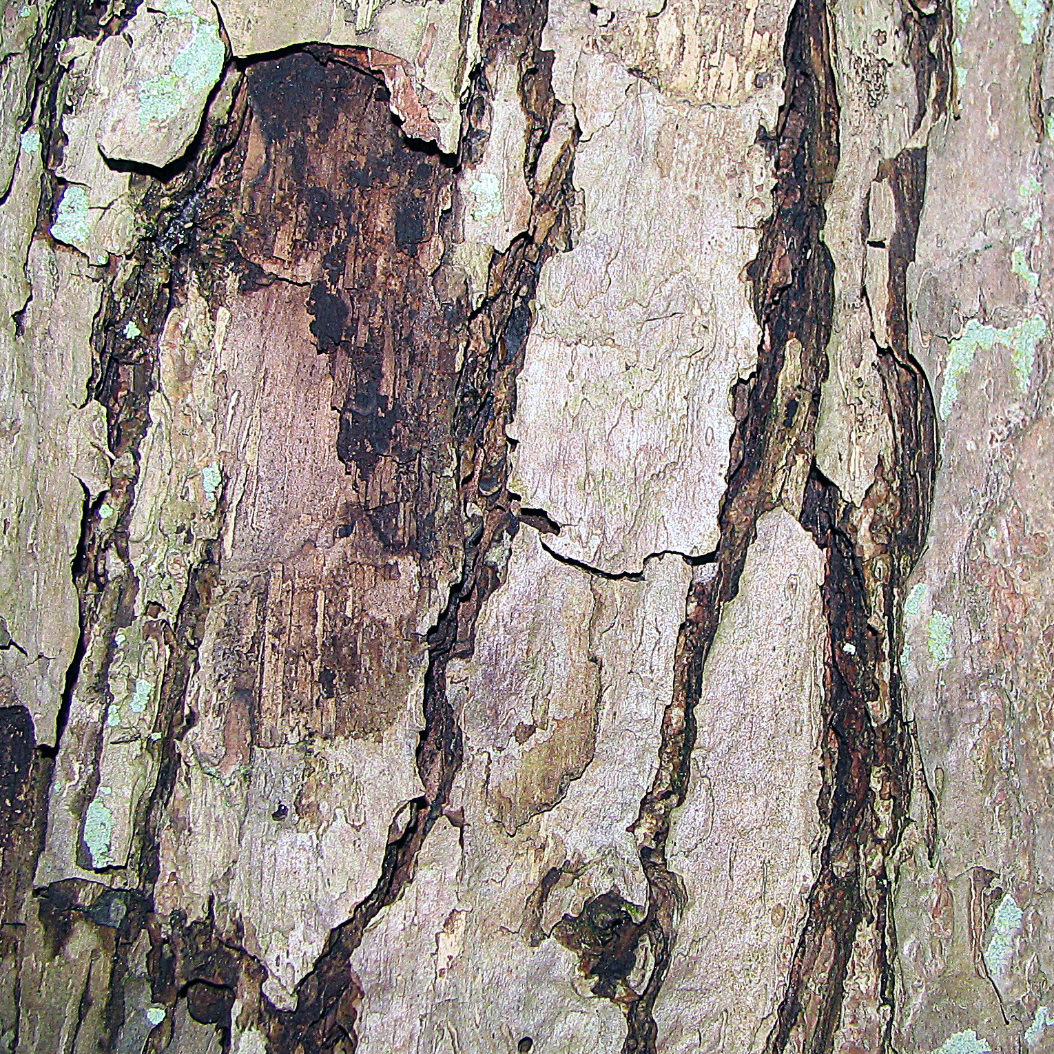 Bark of katsura tree, Alnarp